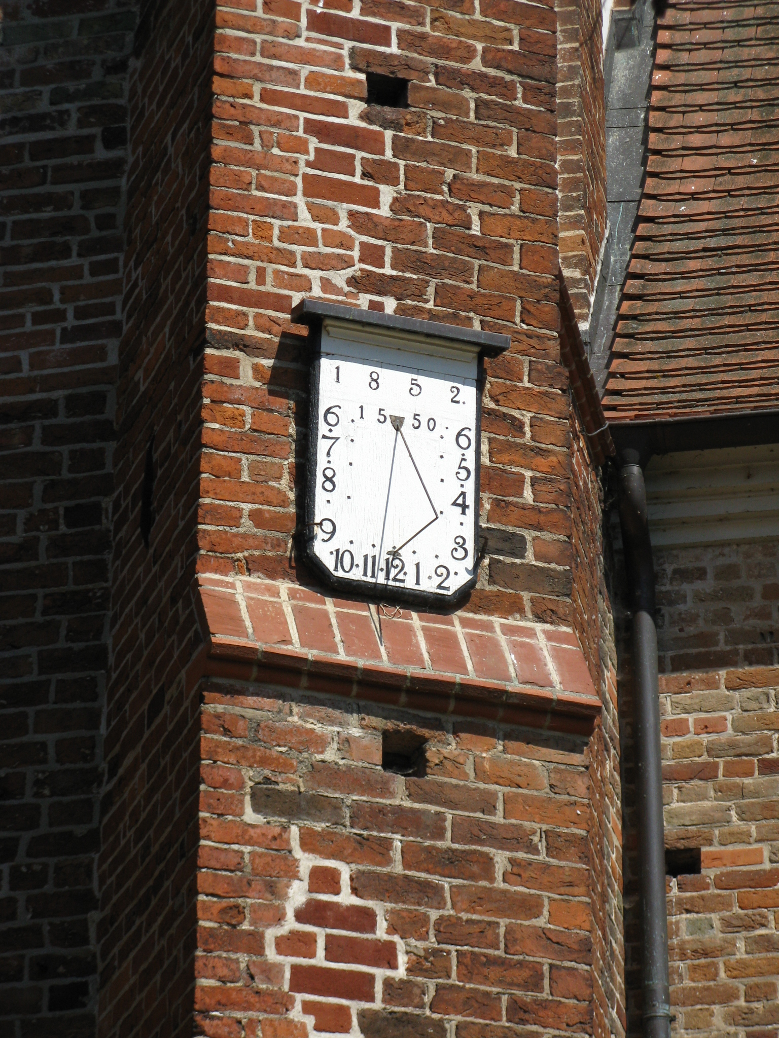 Church in Crivitz, district Ludwigslust-Parchim, Mecklenburg-Vorpommern, Germany